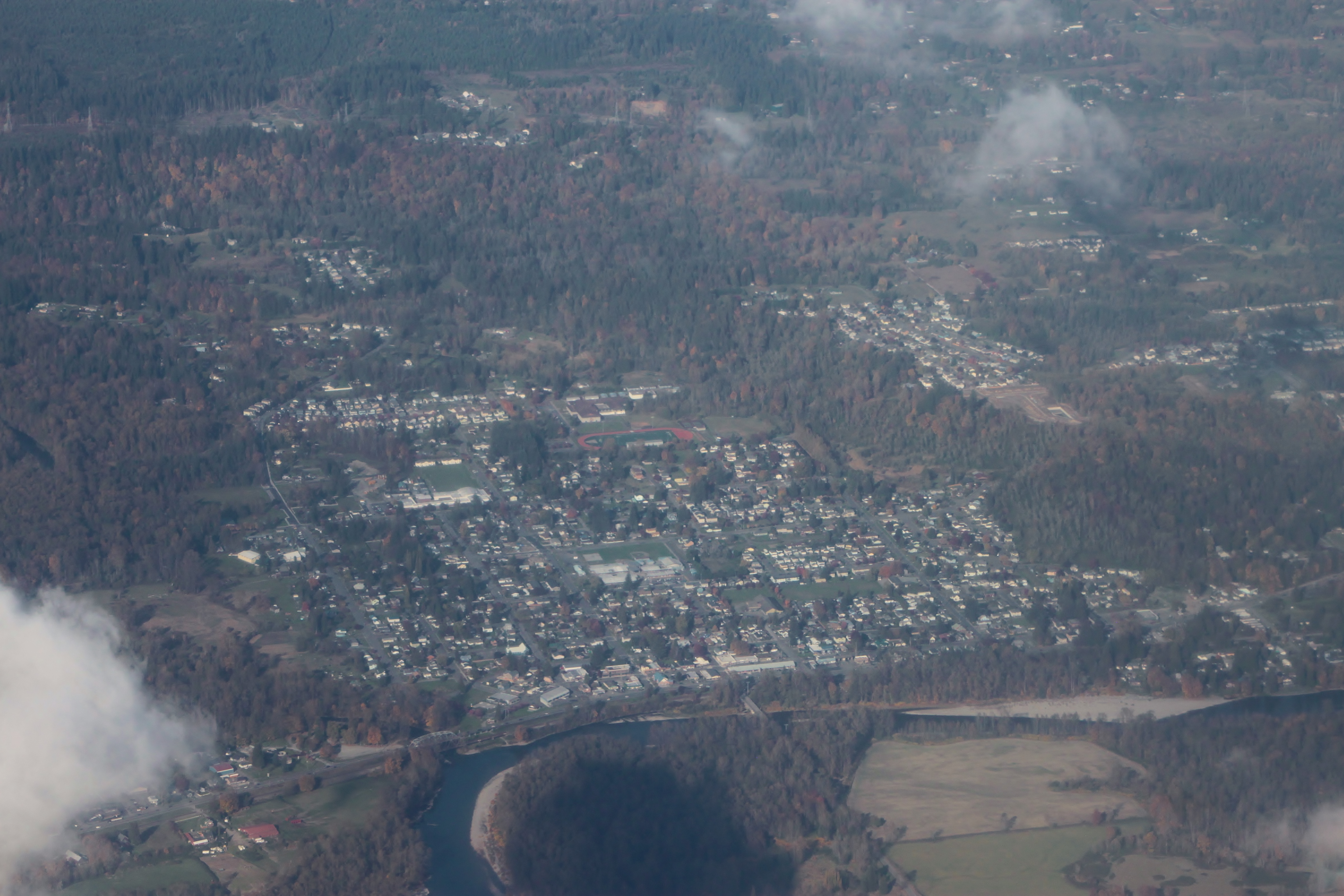 Aerial view of Sultan, Washington, taken from the south.